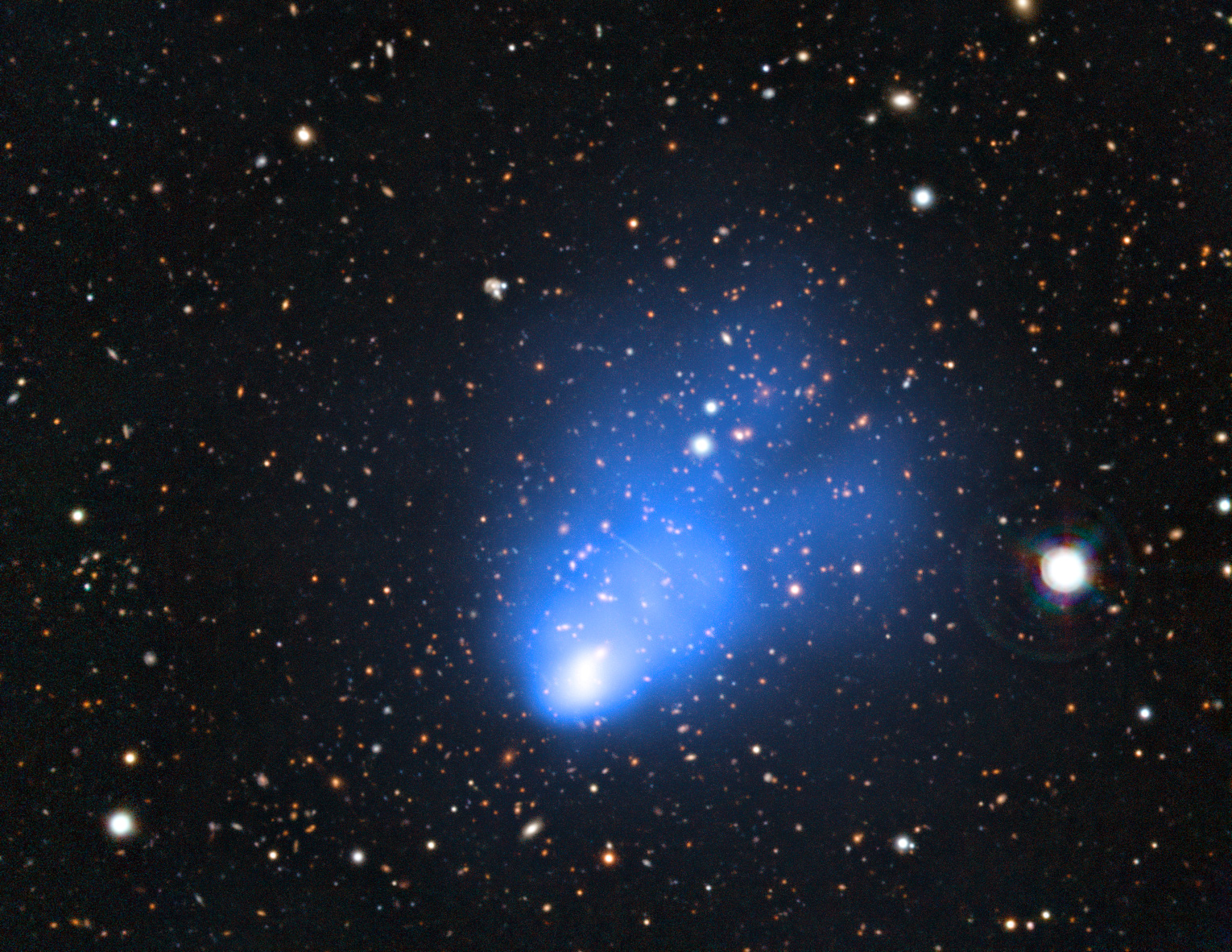 This picture of the galaxy cluster ACT-CL J0102−4915 combines images taken with ESO’s Very Large Telescope with images from the SOAR Telescope and X-ray observations from NASA’s Chandra X-ray Observatory. The X-ray image shows the hot gas in the cluster and is shown in blue. This newly discovered galaxy cluster has been nicknamed El Gordo — the "big" or "fat one" in Spanish. It consists of two separate galaxy subclusters colliding at several million kilometres per hour, and is so far away that its light has travelled for seven billion years to reach the Earth.